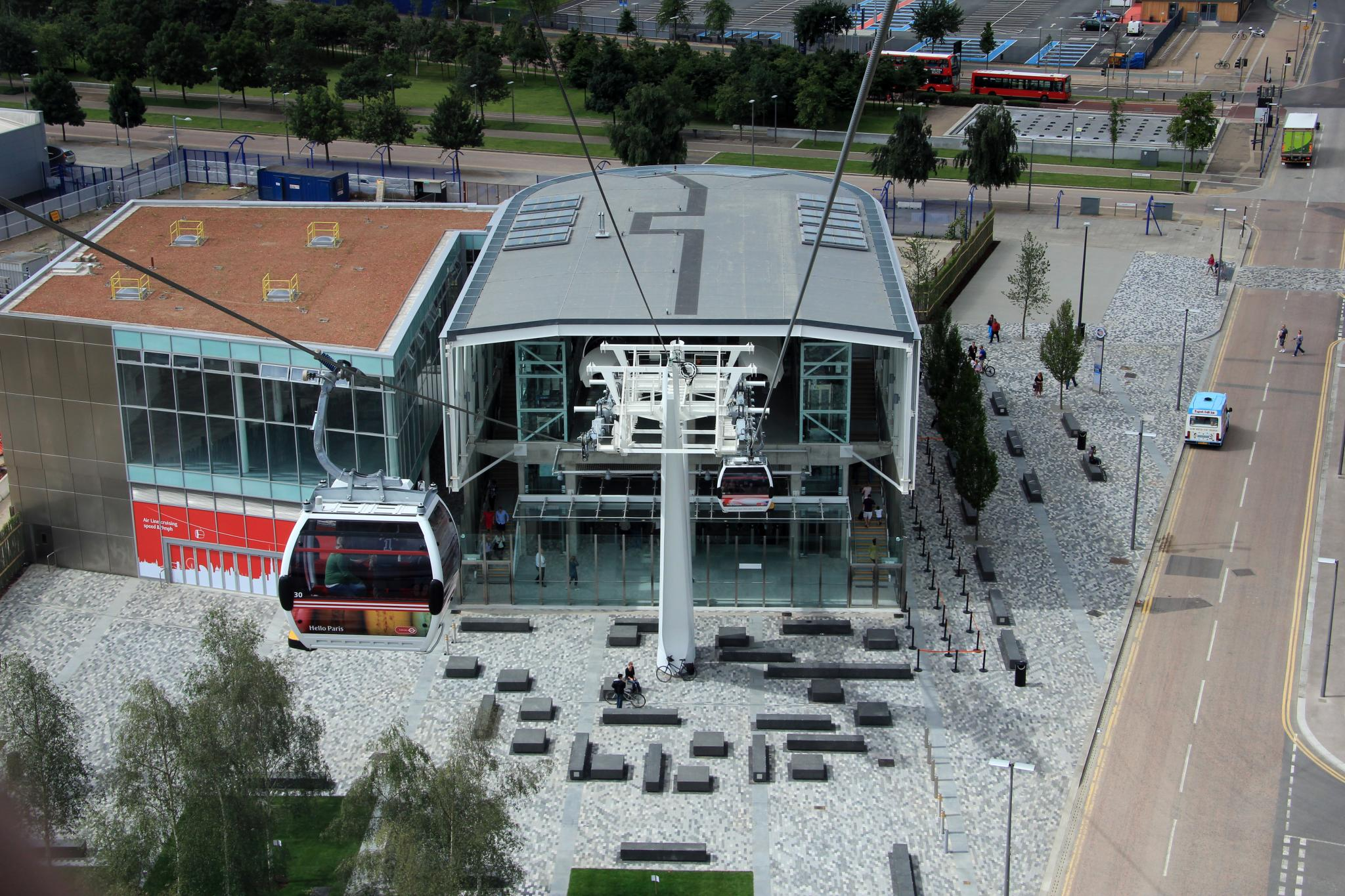 The new Thames cable car, spanning the river, opened to the public on 28th June 2012. The Emirates Air Line links the O2 Arena in Greenwich, south-east London, with the ExCel exhibition centre at the Royal Docks in east London. The service can carry 2,500 people an hour. A single adult fare on the pay-as-you-go Oyster card will cost £3.20 while the cash fare is £4.30. But the fares are not included in travelcards or Oyster capping. The service will operate through the week from 07:00 until 21:00. The gates will open an hour later on Saturdays while the service will run from 09:00 on Sundays. Passengers will also be able to make a non-stop round trip on the cable car, with views of the City, Canary Wharf, the Thames Barrier and the Olympic Park, at a cost of £6.40 with Oyster. But Transport for London said a one-way journey at peak time will be between four and five minutes long, but off-peak the same journey will last about 10 minutes. The Dubai-based airline Emirates is sponsoring the cable car for 10 years at a cost of £36m. The total cost of the project is about £60m, £45m of which went towards building it. Mayor of London Boris Johnson called it a "stunning addition to London's transport network" and a "must-see destination in its own right". "We said we could deliver this travel link in quick time, and today we have shown that this city is capable of attracting serious investment to deliver world class infrastructure. As the world's eyes focus on our city, I can think of no better message to send out across the globe."